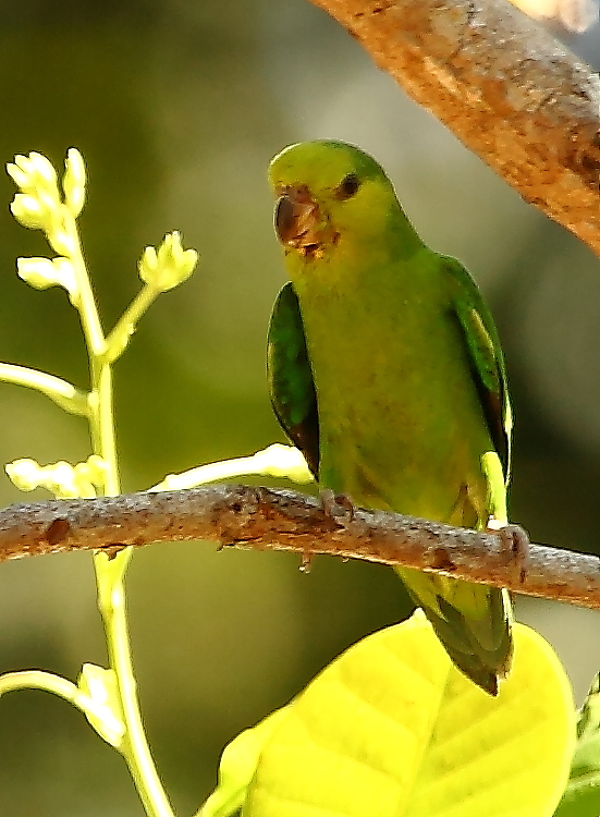 Dusky-billed Parrotlet at Alta Floresta - MT - Brazil